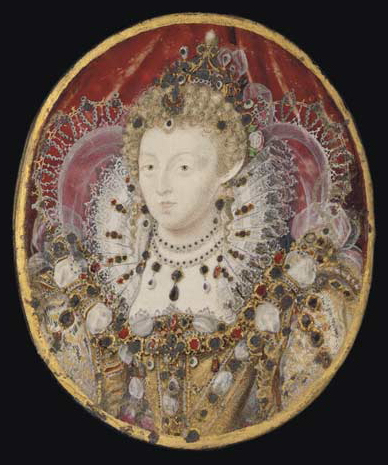 Previously unrecorded Portrait miniature of Elizabeth I of England (1533-1603)